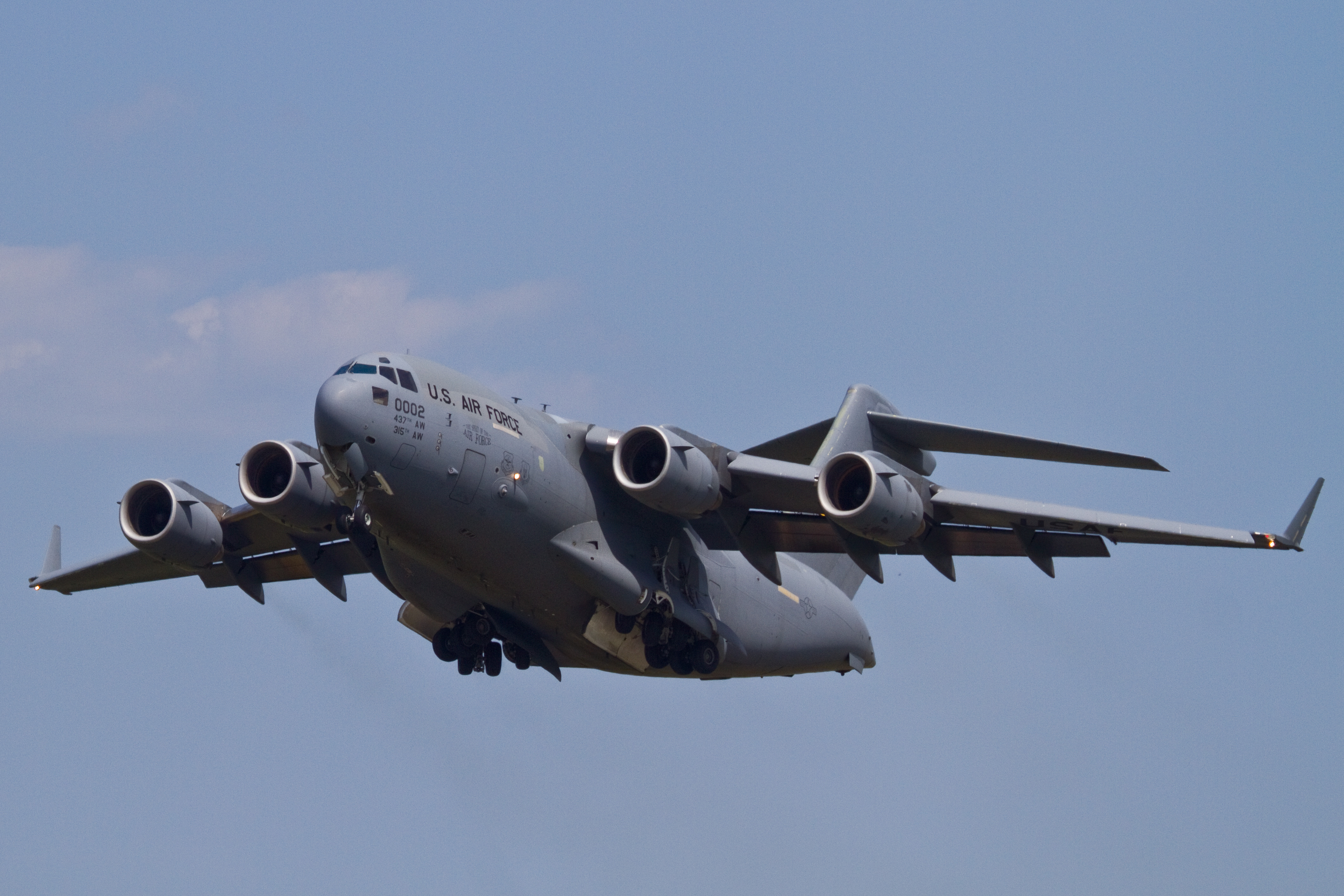 A U.S. Air Force C-17 Globemaster III "Spirit of the Air Force" from the 437th Airlift Wing carrying Airmen and cargo from the 177th Fighter Wing takes off from Atlantic City International Airport, N.J., on May 20, 2014. Airmen from the 177th Fighter Wing are deploying for a Pacific Air Forces (PACAF) mission. The 437th Airlift Wing is based out of Joint Base Charleston, S.C. (U.S. Air National Guard photo by Tech. Sgt. Matt Hecht)